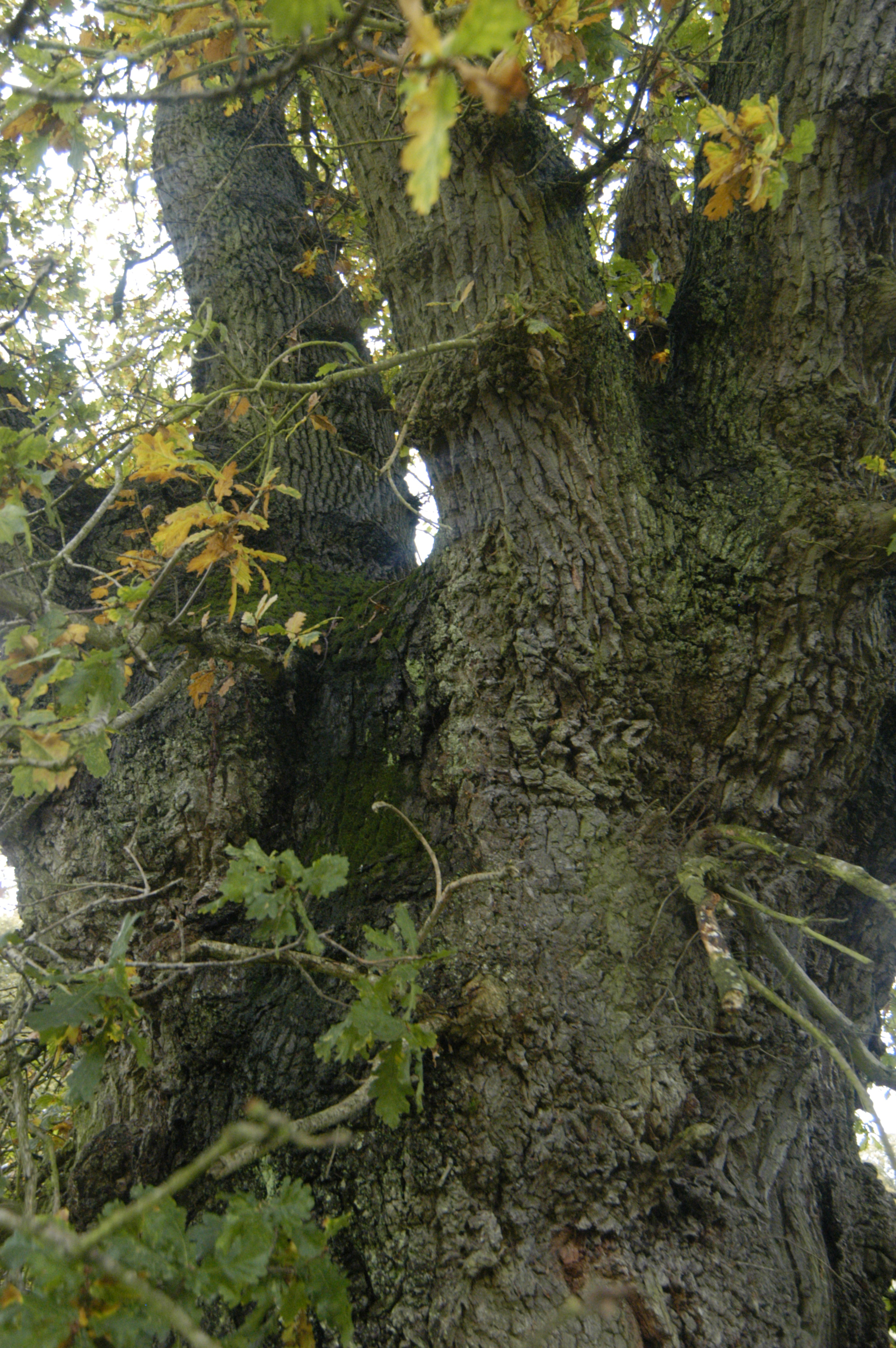 Photo (by me, R. de Salis,Rodolph (talk) 21:43, 30 October 2015 (UTC)) of a pollard oak marking part of the ancient parish boundary of Wash Common, part of Newbury, (near Barn Copse and Park House school), and Sandleford.